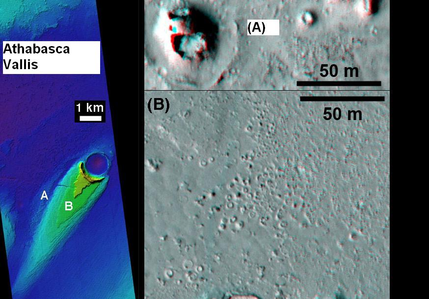 Cones were formed from lava interacting with ice. Image taken with hirise.